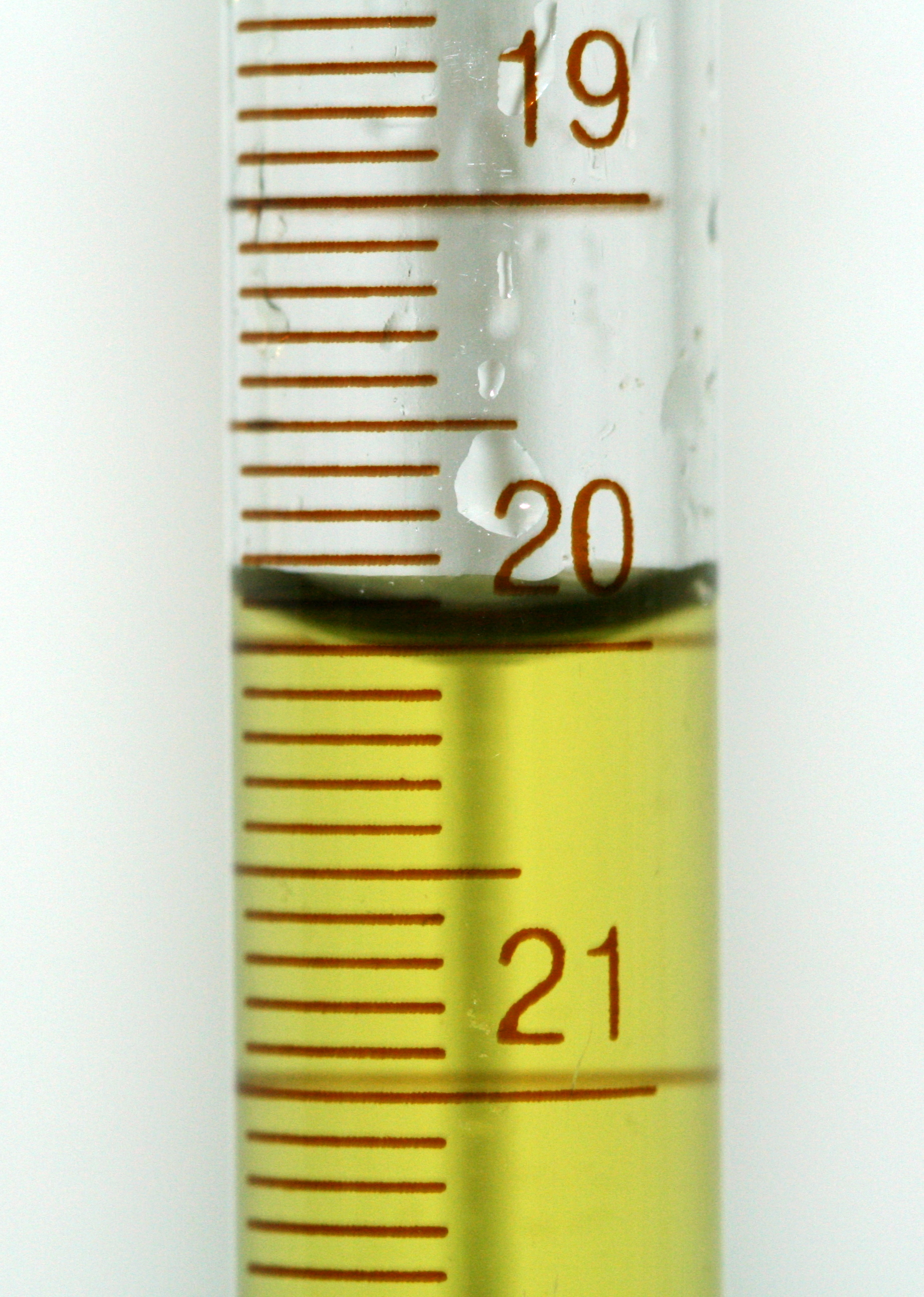 A meniscus as seen in a burette full of colored water.